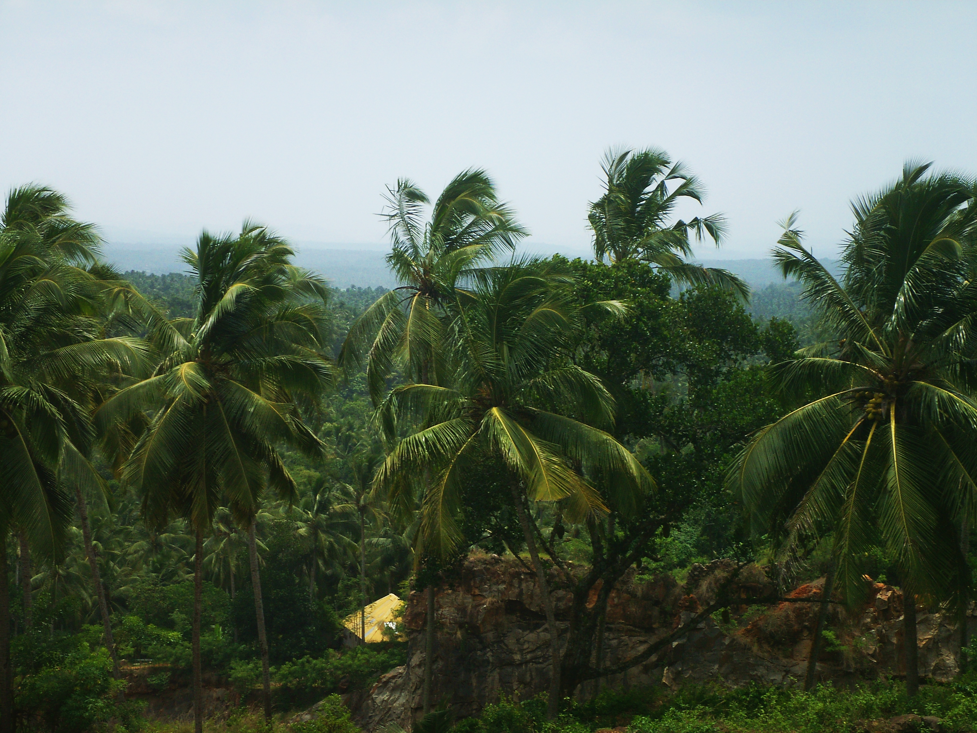 Green panorama of south Kerala, not far from Kovalam.